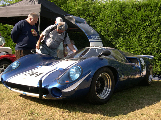 Picture represents a Lola T70 Mk3 racing car, and was taken by myself, Andy Enderby at the Midland Automobile Club Shelsley Walsh Hillclimb Centenary in 2005.